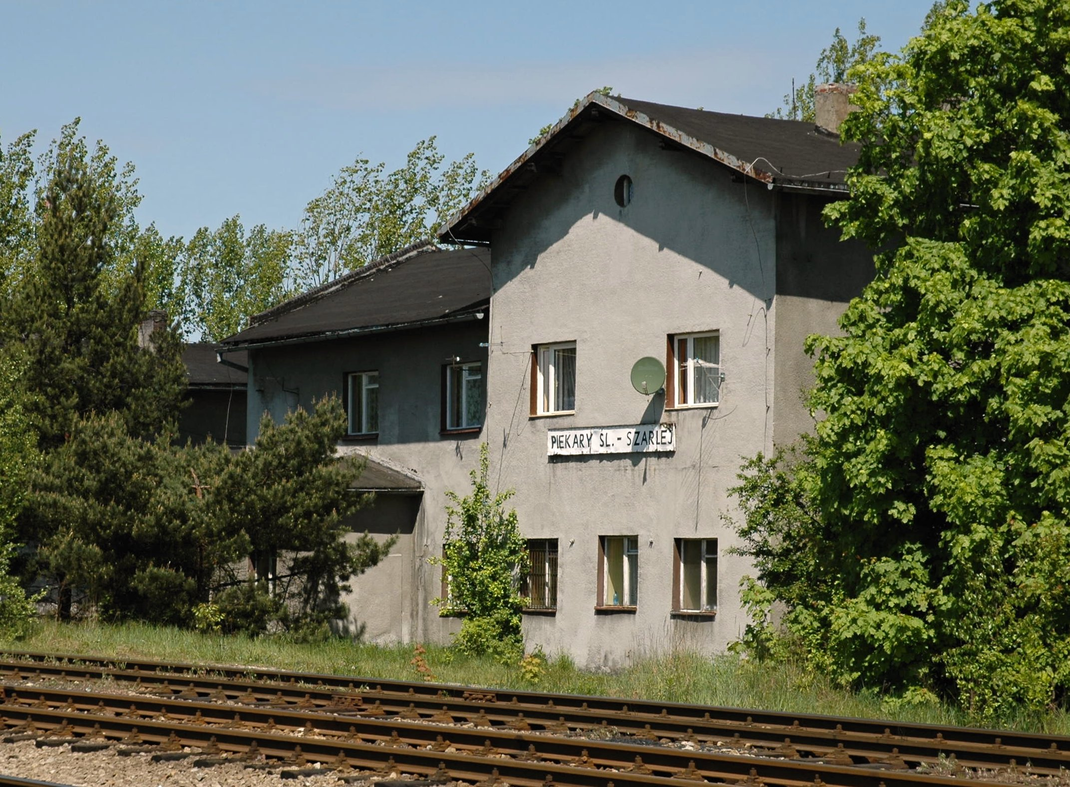 Piekary Śląskie Szarlej railway station, Poland